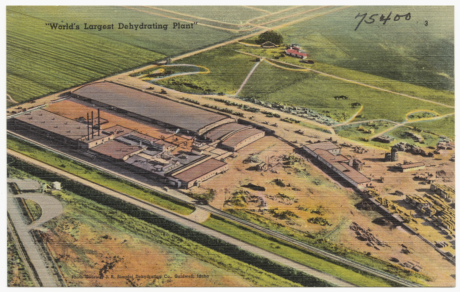 File name: 06_10_013336 Title: "World's largest dehydrating plant" Date issued: 1930 - 1945 (approximate) Physical description: 1 print (postcard) : linen texture, color ; 3 1/2 x 5 1/2 in. Genre: Postcards Subject: Industrial facilities Notes: Title from item. Collection: The Tichnor Brothers Collection Location: Boston Public Library, Print Department Rights: No known restrictions